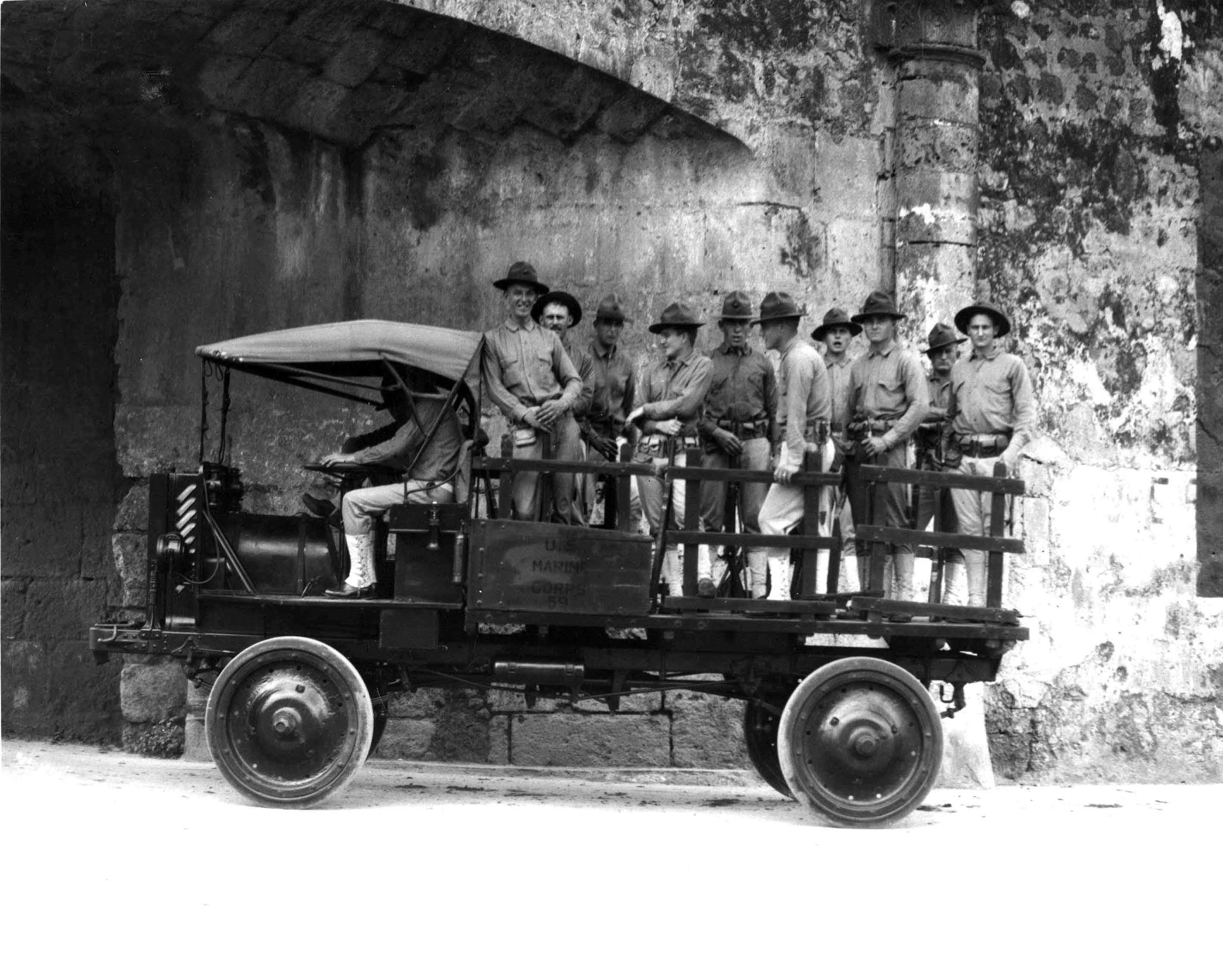 U.S. Marines returning to Fort Santo Domingo, c1916-1917.